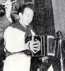 Tránsito Cocomarola. 1950. Argentina. Chamamé